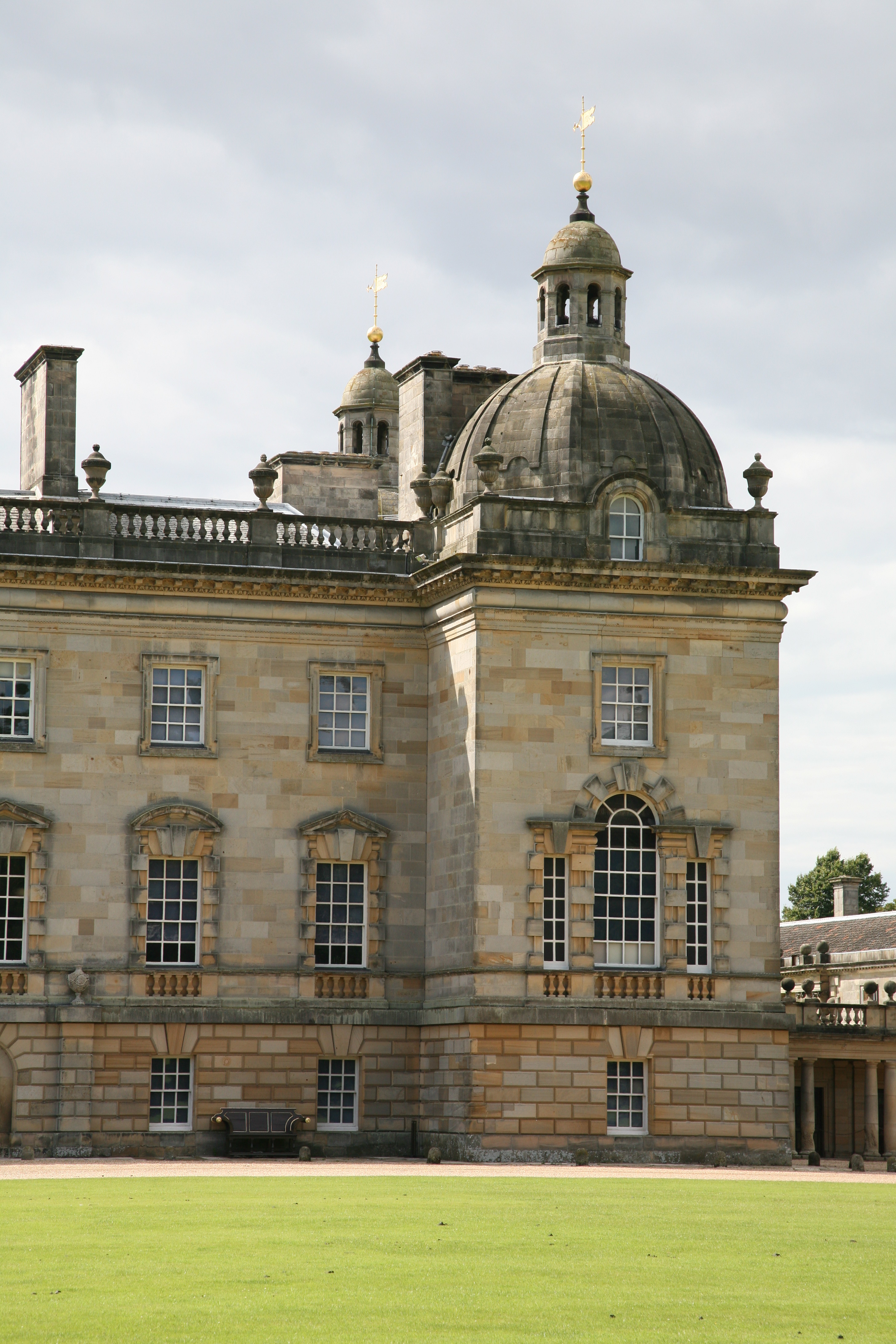 Houghton Hall in Norfolk is an important Palladian building. The architects were Colen Campbell, who began the building, James Gibbs, who added the domes, and William Kent. The east front.